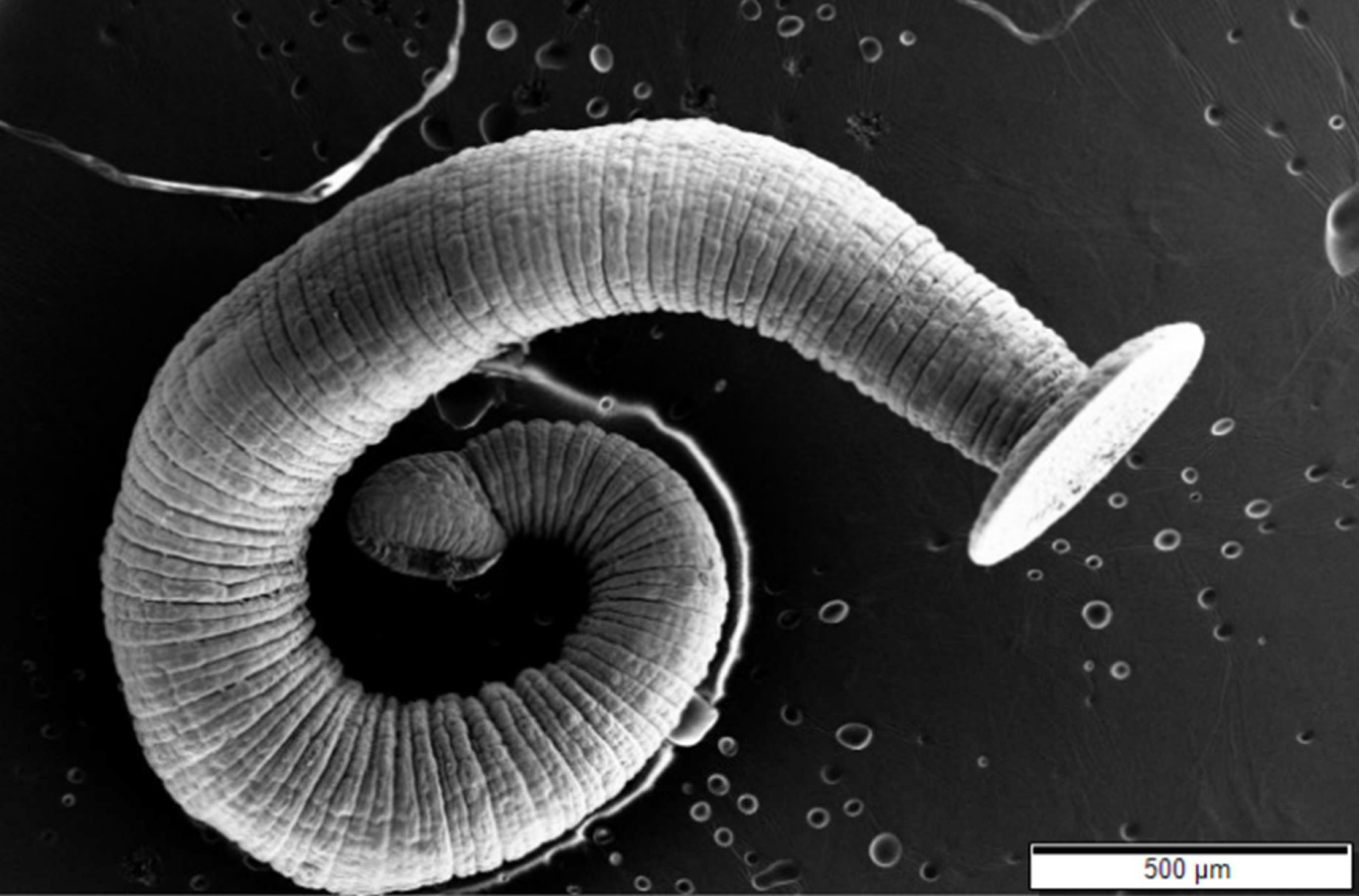 Tapeworm, SEM image. The removal of the mucous layer in these intestinal parasites was achieved by 25–50 gentle washings with physiological saline. The number of washings has to be experimentally worked out for the type and intensity of the mucous covering.